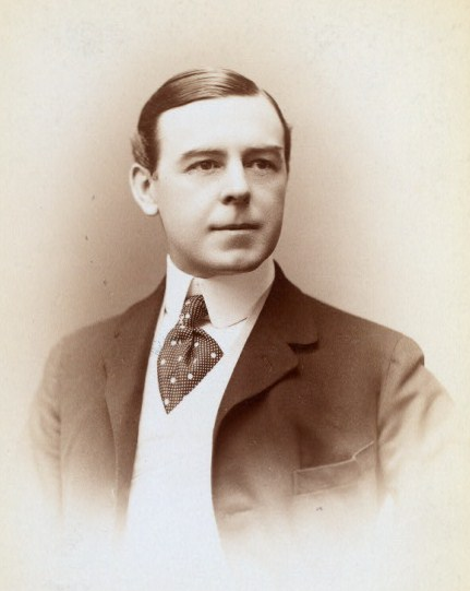 Actor Henry Miller facing to his left.